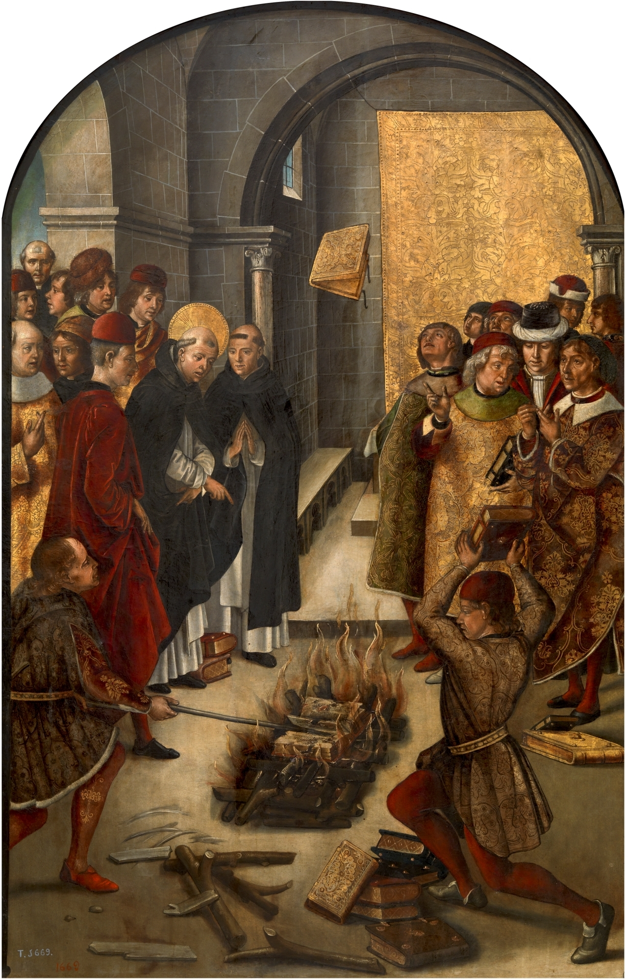 This portrays the story of a dispute between Saint Dominic and the Cathars in which the books of both were thrown on a fire and St.Dominic's books were miraculously preserved from the flames.This was believed to symbolize the wrongness of the Cathars' teachings. Spanish painting from the 1400s by Pedro Berruguete showing the miracle of Fanjeaux. According to the Libellus of Jordan of Saxony, the books of the Cathars and those of the Catholics were subjected to trial by fire before Saint Dominic. The Catholic books were rejected three times by the flames. Scanned from a history book. In spite of the title, it is not a book burning by the Inquisition.